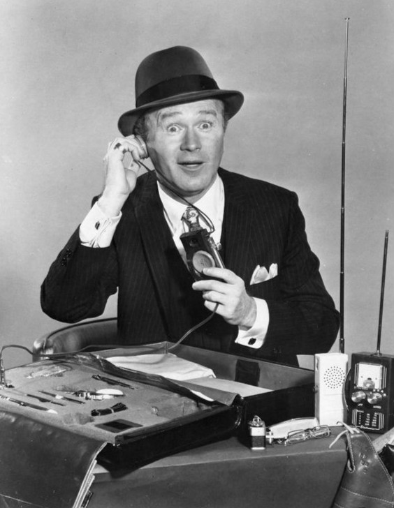 Photo of Red Buttons from the television program The Double Life of Henry Phyfe. Buttons played Phyfe, a meek accountant who was unwittingly thrust into the world of espionage.